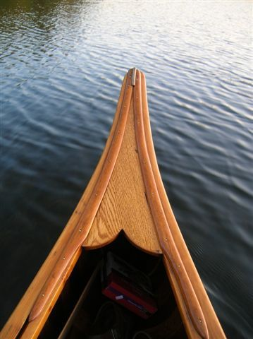 Deck of a short-decked Kennebec canoe c.1927